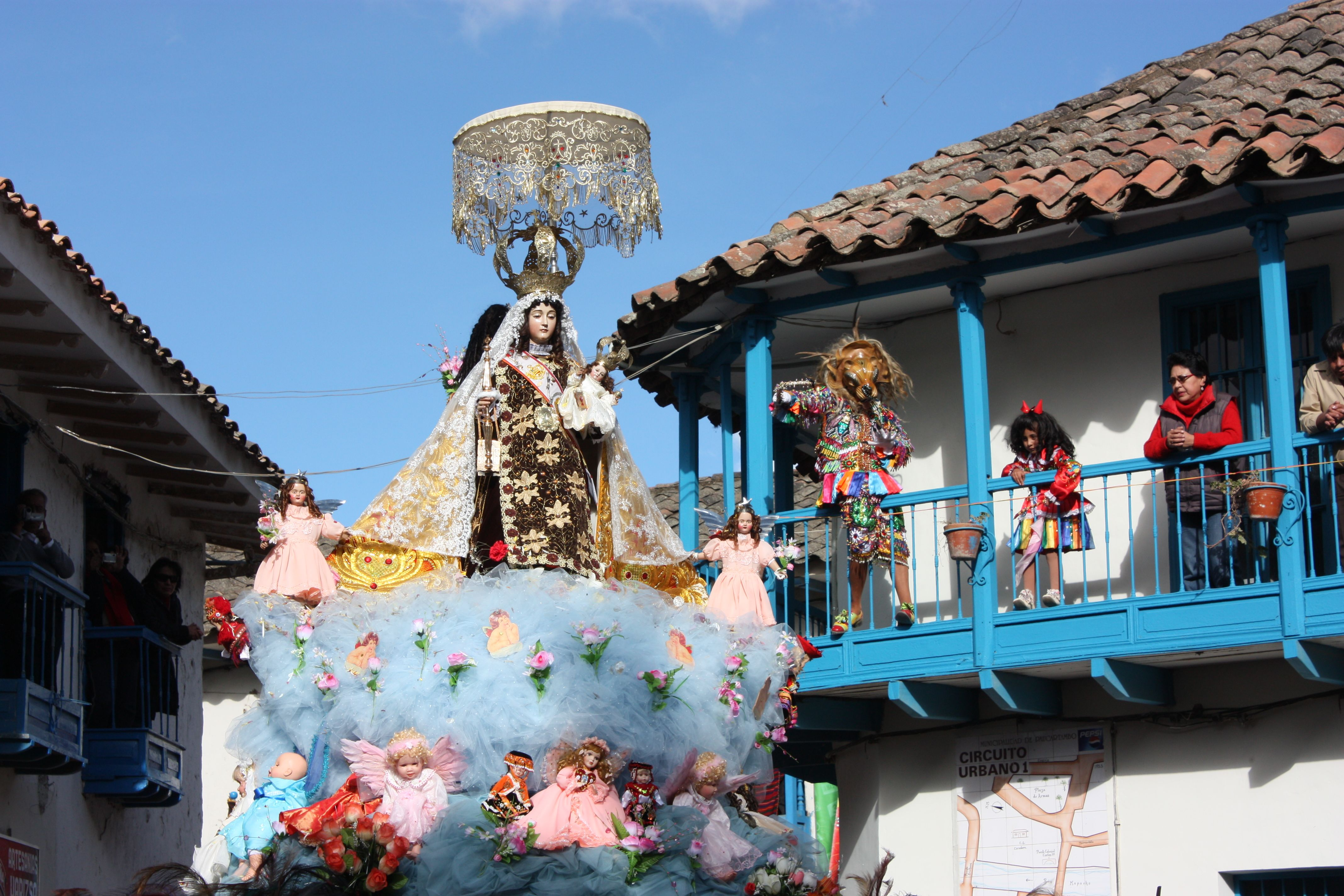 Virgen del Carmen paraded through the town of Paucartambo, Peru